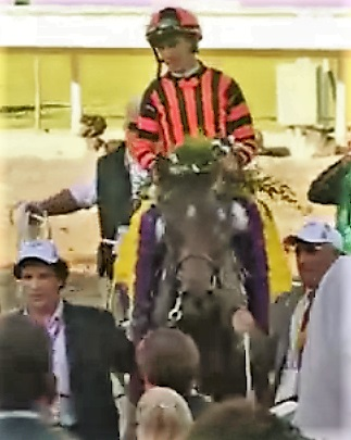 Little Mike after winning the 2012 Breeders' Cup Turf